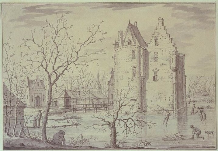 Castle Frisselstein near Veghel